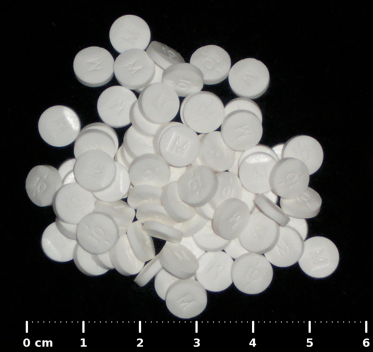 Methylphenidate tablets, 10mg, quick-release, with a digitally added ruler for scale.